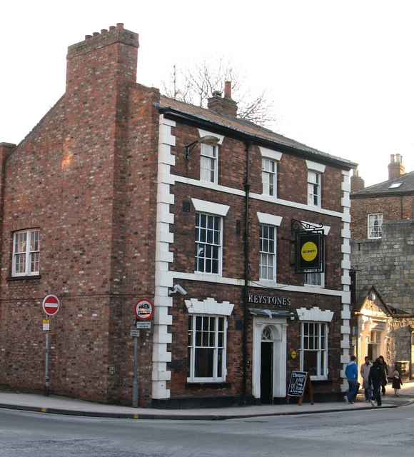 Keystones, Monk Bar This establishment appears to have become a 'theme pub' recently, but one can't be sure if it is called 'Keystones' or 'Scream' as both names appear on the front. There is also a board advertising wine prices, so maybe it is now a wine bar. Originally built around 1820 and for many years known as The Bay Horse - a proper pub.